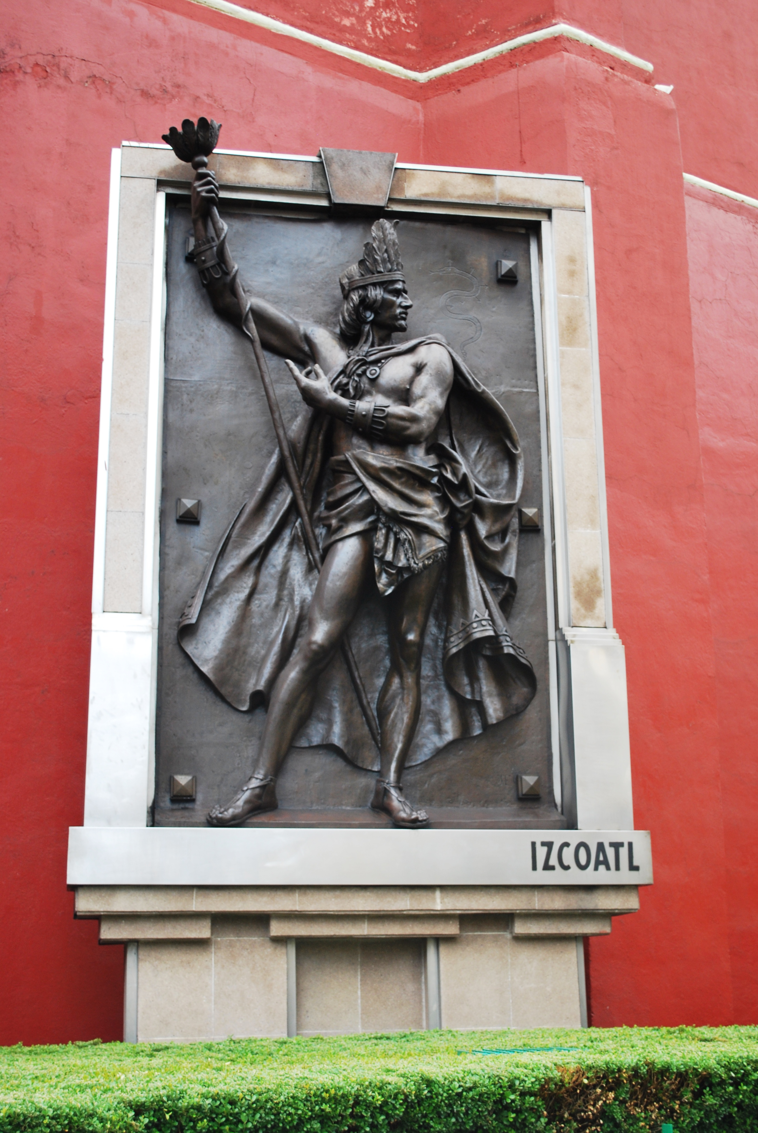 Bronze casting (1889) of the mexica tlatoani Izcoatl by Jesús F. Contreras, located in the Garden of the Triple Alliance in the historical center of Mexico City (Filomeno Mata street).